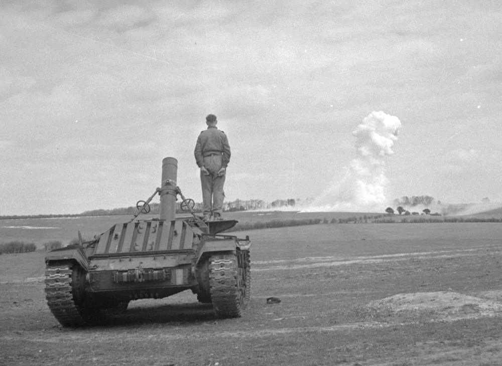 Flame mortar fitted to Valentine tank chassis, firing phosphorus bombs during Petroleum Warfare Department trials, Barton Stacey, 20 April 1944.